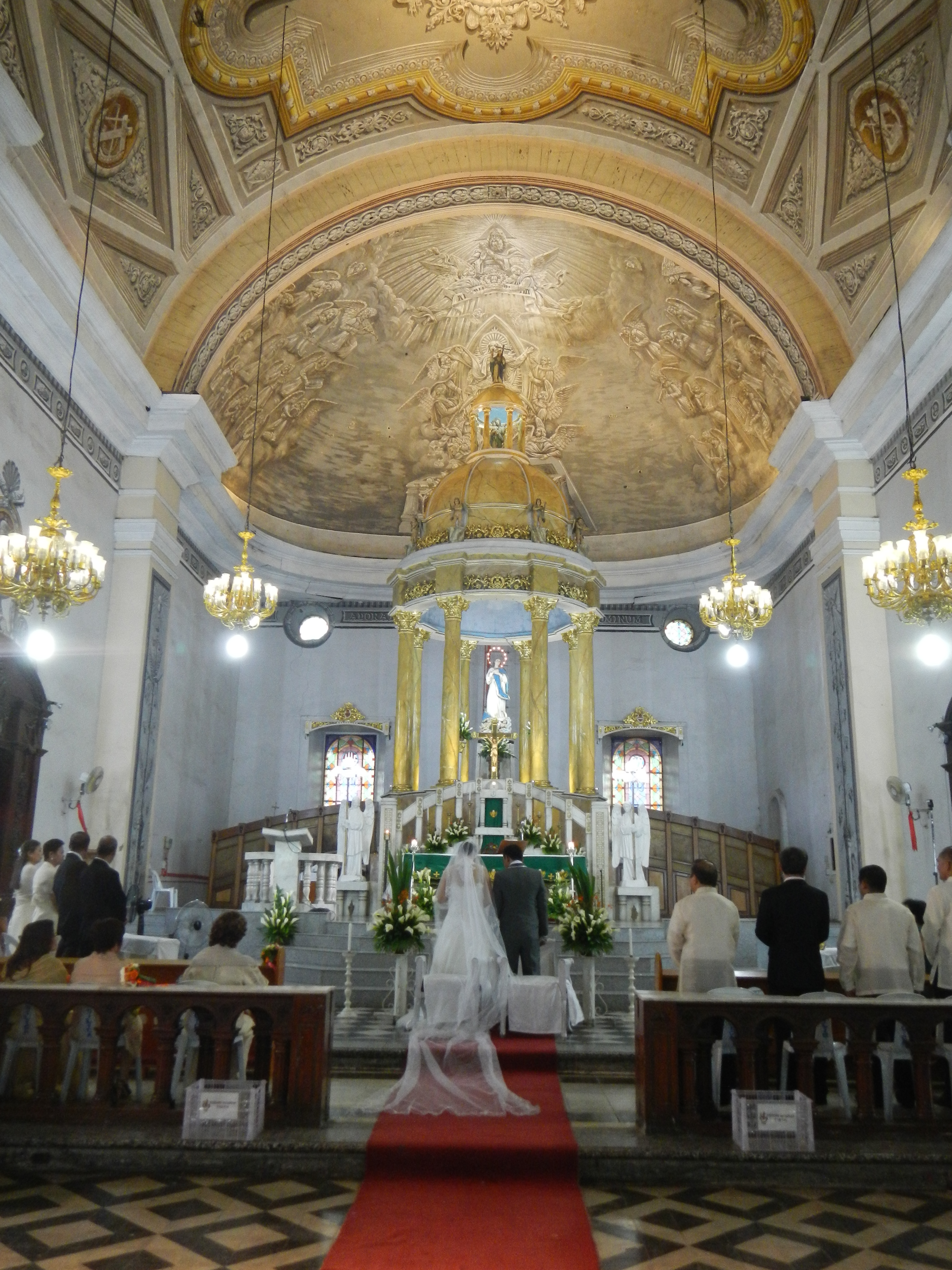 Upload Wizard -- (general description of landmarkds, town, church) - of - Jose P. Laurel , Apolinario Mabini, Miguel Malvar busts, monuments at Historical Park of the --- Historical Park and Laurel Park - Batangas Provincial Board[1] is the Sangguniang Panlalawigan[2] (provincial legislature) of the Philippine province of Batangas- Presiding Officer Jose Antonio Leviste II, Liberal Party - located in the Apolinario M. Mabini Legislative building, Capitol Site, - at the - Batangas [ Provincial Capitol [3] Coordinates: 13°45'55"N 121°3'50"E Batangas City (the largest and capital city of the Province of Batangas, the "Industrial Port City of Calabarzon", 2010 census, the city has a population of 305,607 people - 1926 Batangas [4] Provincial Capitol [5] Coordinates: 13°45'55"N 121°3'50"E Batangas City (the largest and capital city of the Province of Batangas, the "Industrial Port City of Calabarzon", 2010 census, the city has a population of 305,607 people) - & - the Basilica Minore of the Infant Jesus and Immaculate Conception of Batangas City[6] (the largest and capital city of the Province of Batangas, [7] the "Industrial Port City of Calabarzon", 2010 census, population of 305,607 people) - Minor Basilica of the Immaculate Conception was built in 1581 with improvised materials- List of basilicas [8] Coordinates: 13°45'14"N 121°3'33"E[9] belongs to the Roman Catholic Archdiocese of Lipa[10] Vicariate III: Vicariate of the Immaculate Conception Minor Basilica of the Immaculate Conception - [11] Immaculate Conception Minor Basilica, baroque-styled basilica erected in 1857 under Fr. Pedro Cuesta, declared a Minor Basilica by Pope Pius XII on February 13, 1945, first basilica, houses the original Sto. Niño ng Batangan, a miraculous statue of the Infant Jesus; [12]